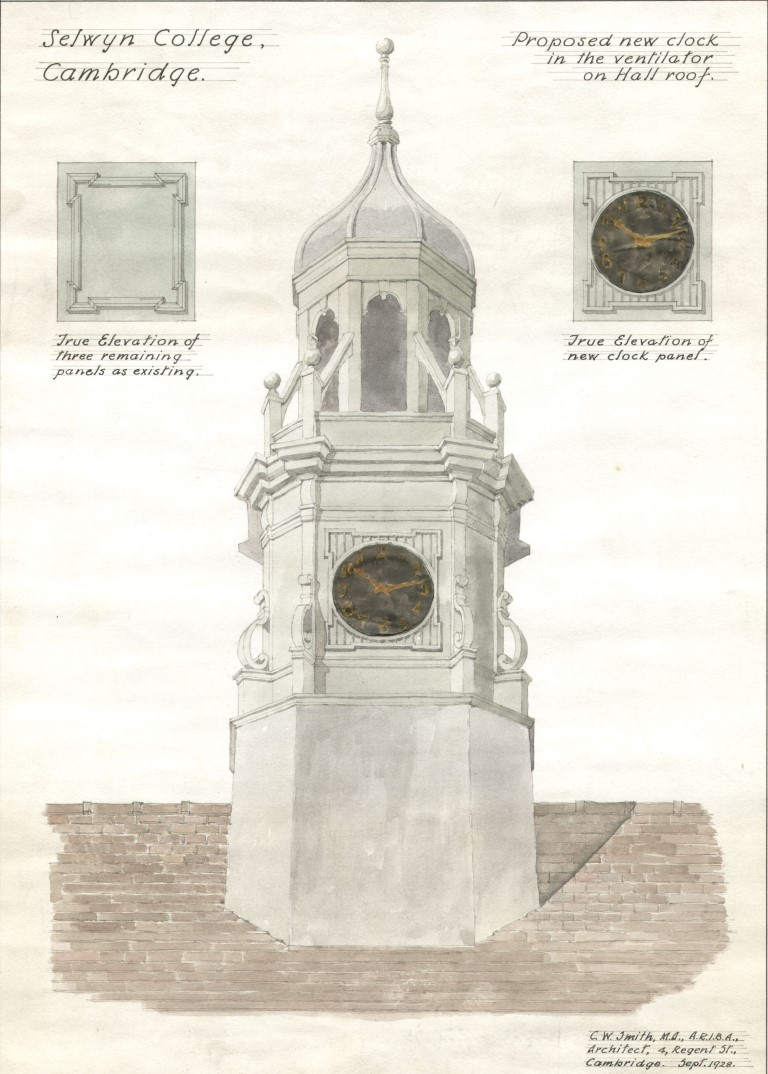 Selwyn College, Cambridge (Hall Clock)